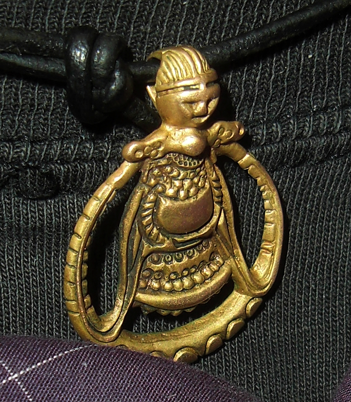 Amulet of the Norse goddess Freyja worn by a Swedish practioner of Forn Sed and member of Forn Sed Sweden. This amulet is a copy of a find of a Viking period silver amulet from Aska in Hagebyhöga parish, Aska hundred, Vadstena municipality, Östergötland, Sweden.